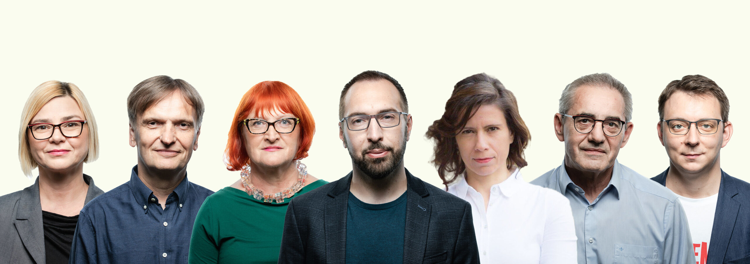 portraits of 7 members of coalition We can! (Croatia) that became parliamentarians from 2020 elections